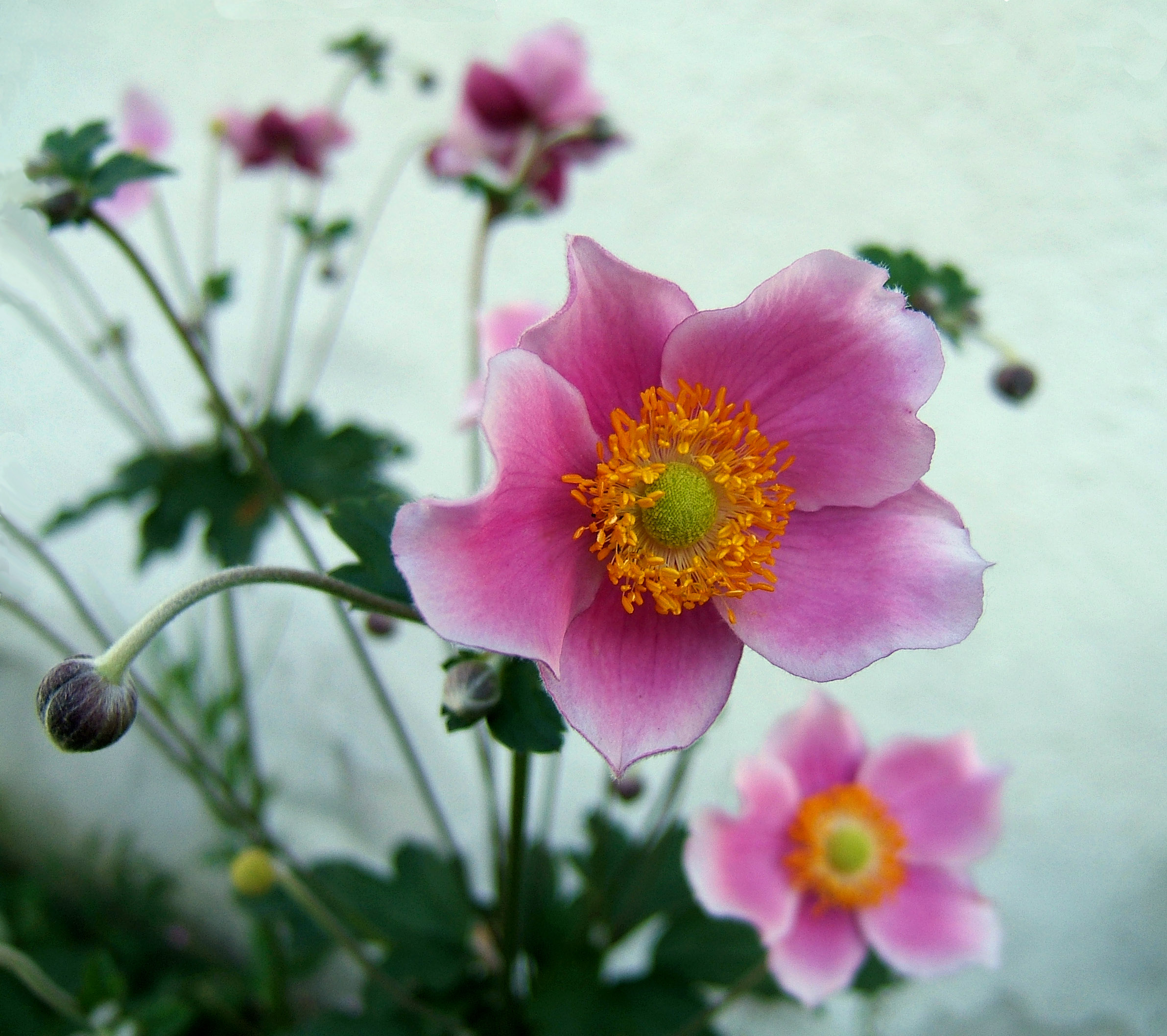 Chinese Anemone